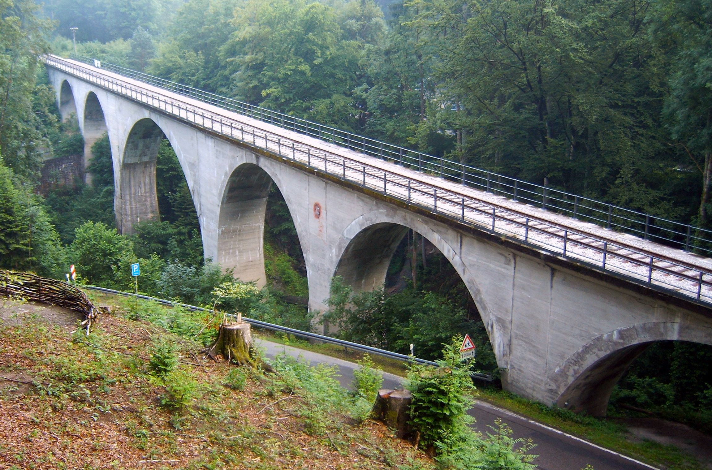 Viaduct of the Rudersberg–Welzheim heritage railway near Schorndorf, Germany